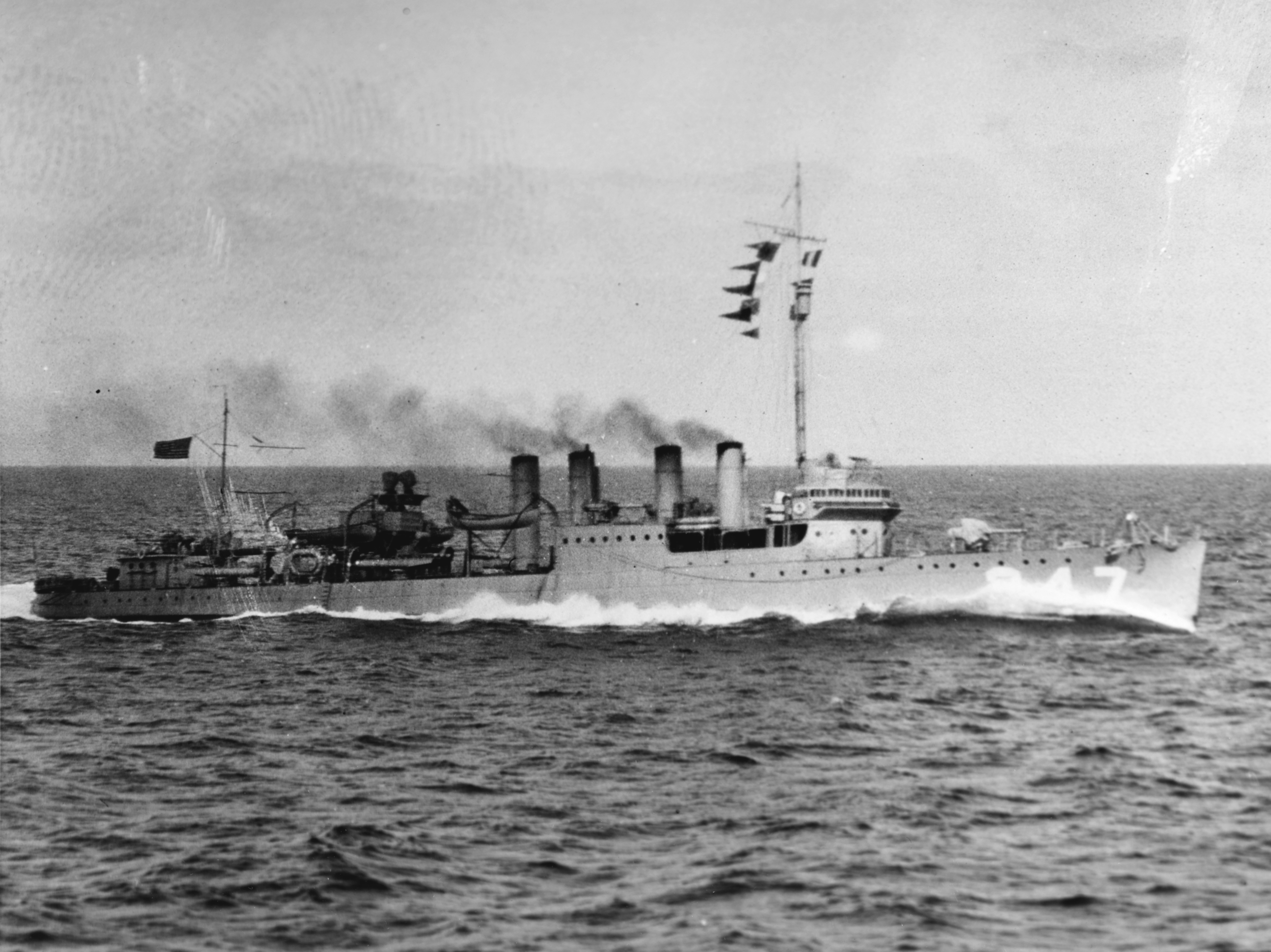 The U.S. Navy destroyer USS Goff (DD-247) making a full-power run in the Sea of Marmora, Turkey, on 25 March 1923.